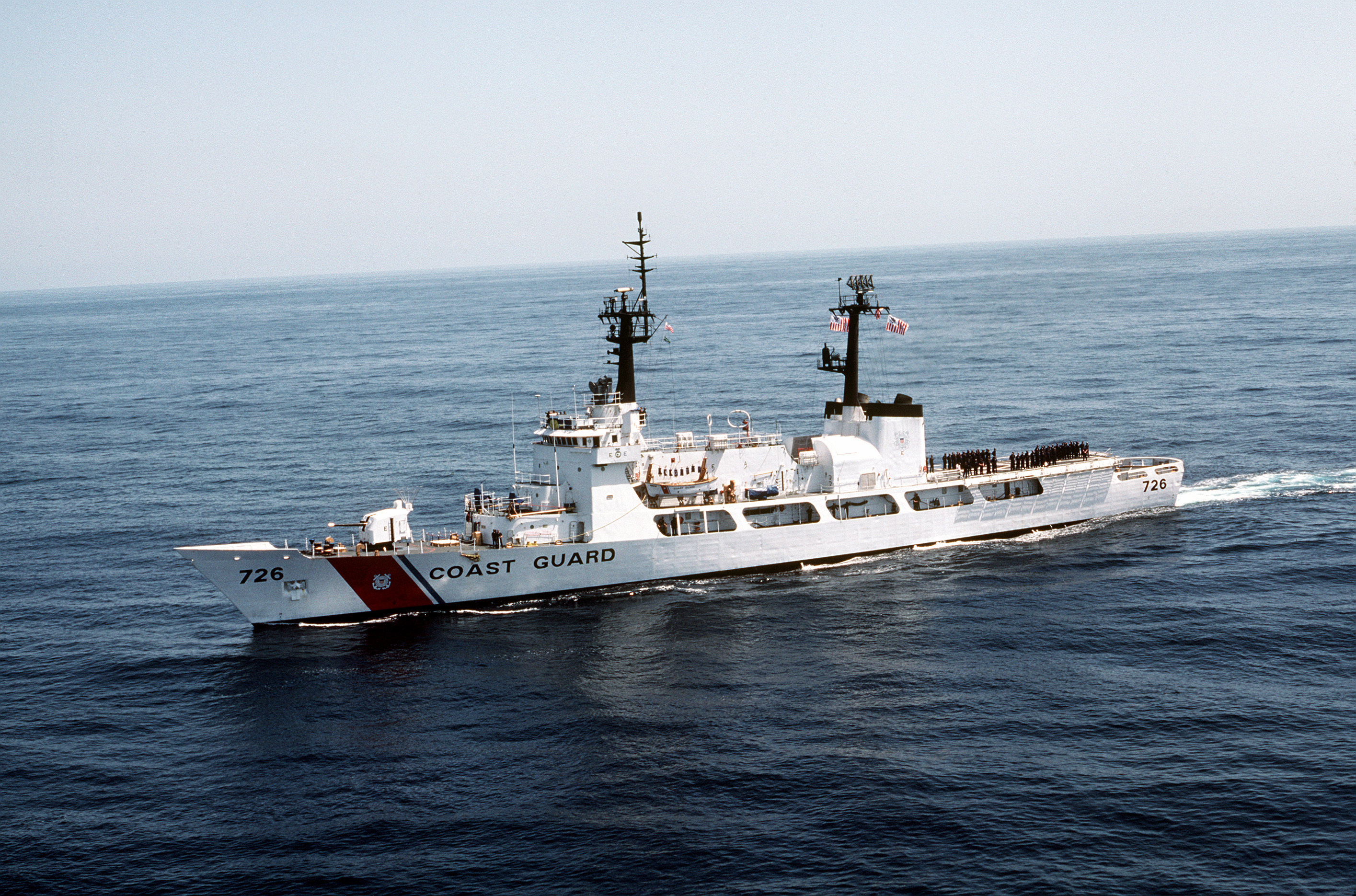 An aerial port bow view of the Coast Guard high endurance cutter MIDGETT (WHEC-726). The ship is part of a task group underway off the coast of California.